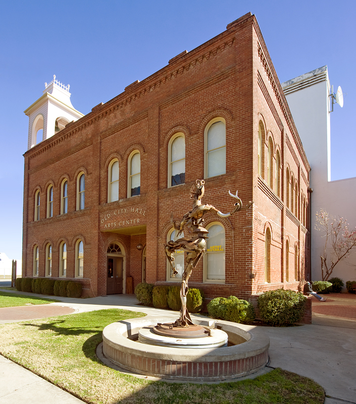 Old City Hall Building, 1313 Market Street in Redding, California